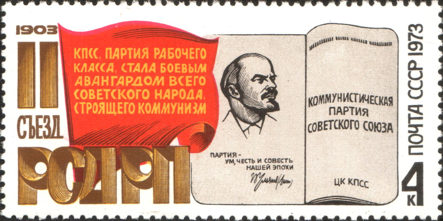 USSR stamp